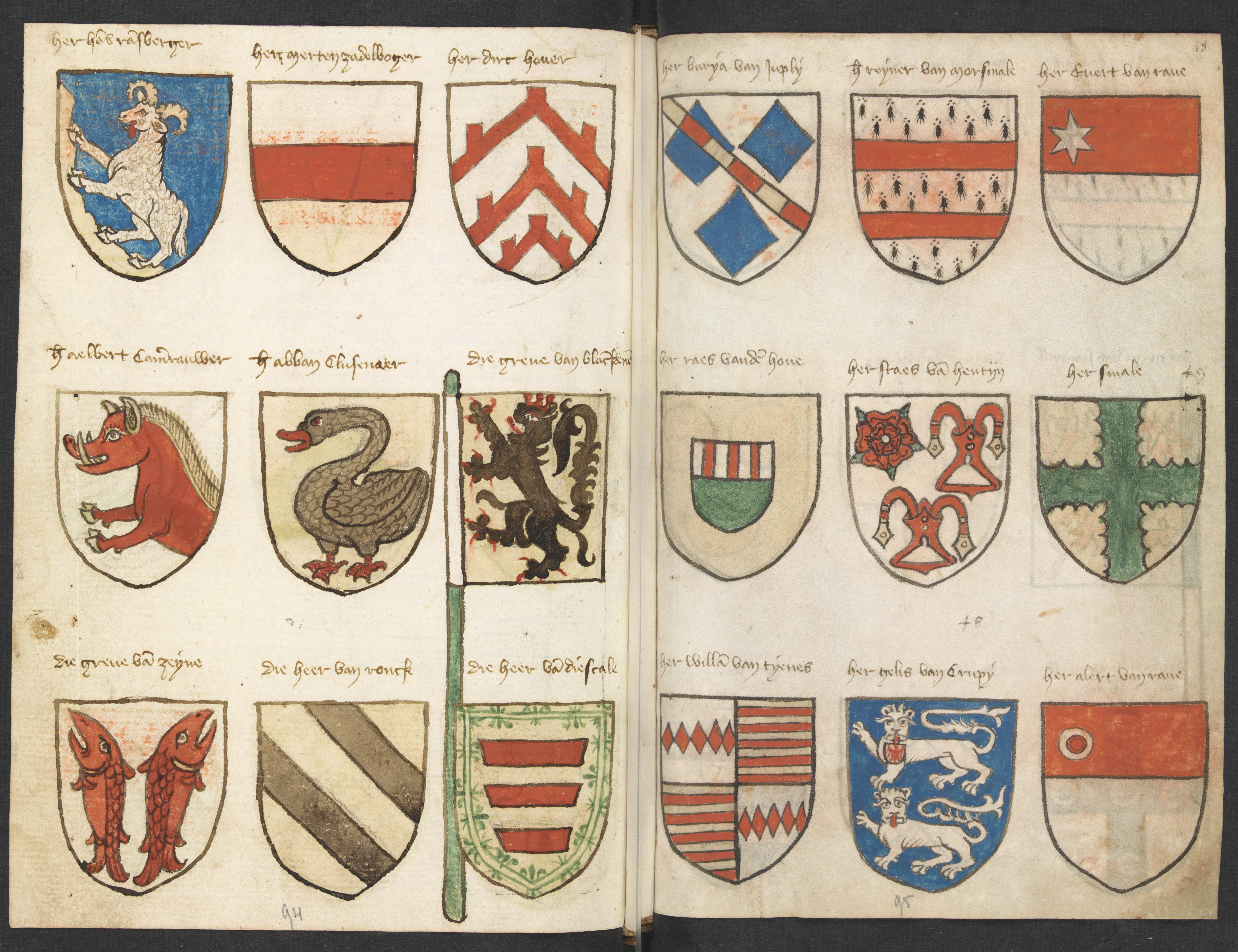 Lefthand side folio 047v; righthand side folio 048r from the Beyeren armorial / Wapenboek Beyeren